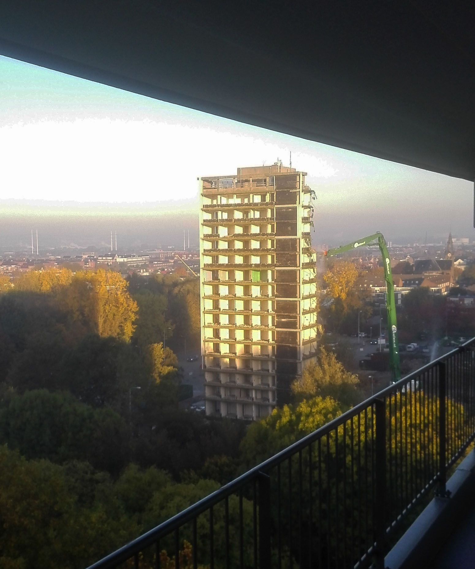 Ultra high reach demolition excavator (48m reach) demolishing a high-rise building, part of the Reinier de Graaf Gasthuis, Delft.